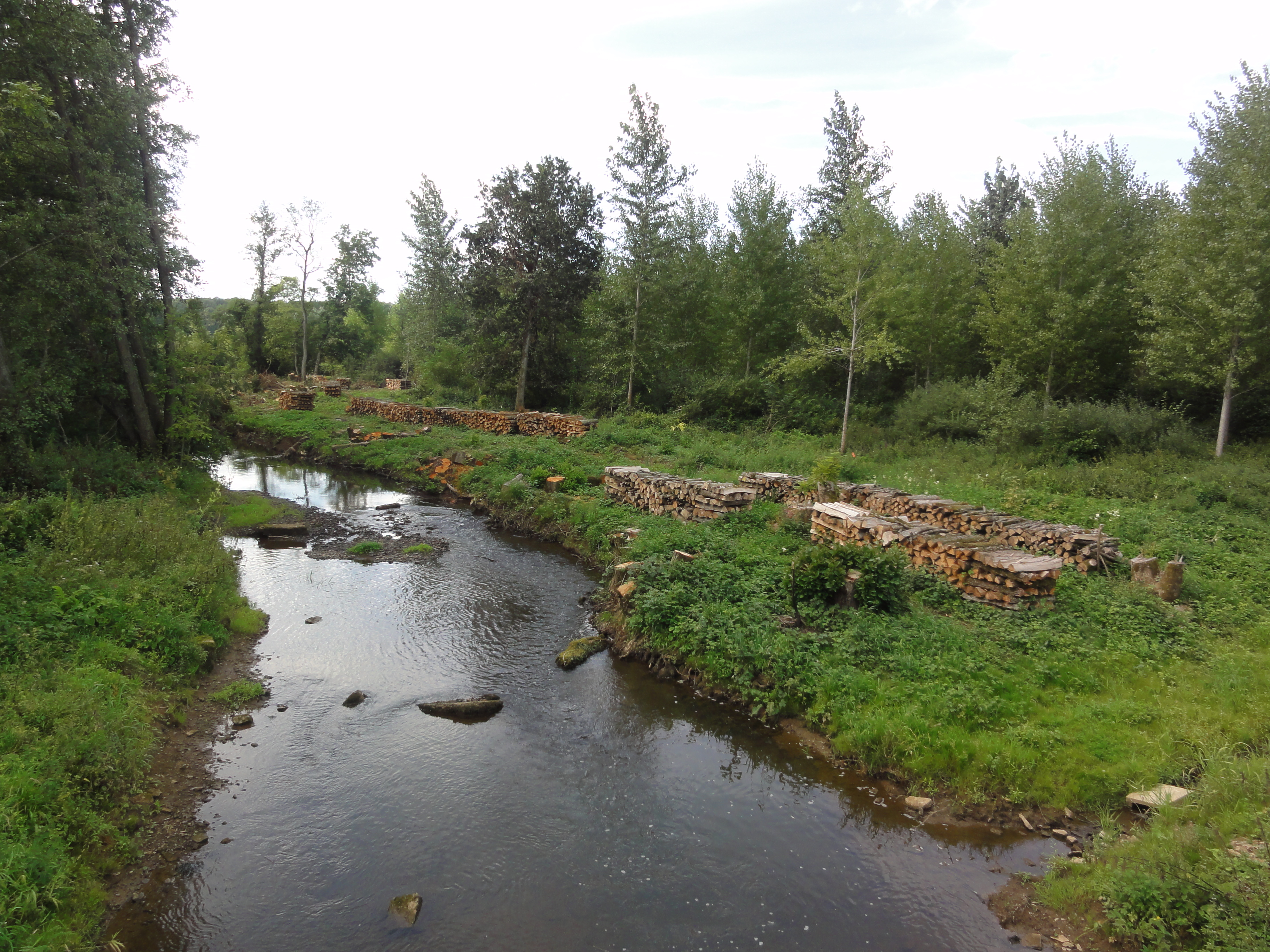 Chilly (Ardennes) la Sormonne